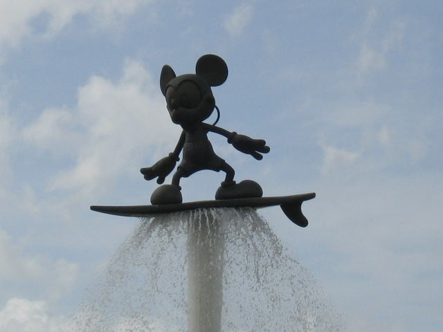 Image is a photo of the Disneyland Resort Station in Hongkong. It is taken by Hui Lok Him (doggie82) and he has the copyright.